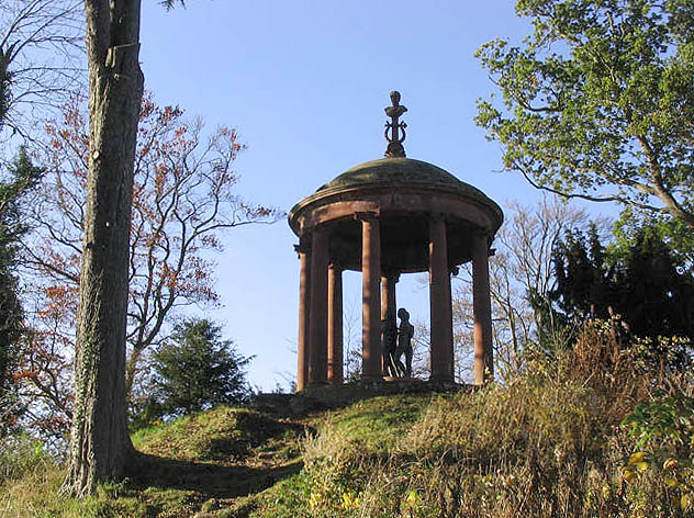 The Temple of the Muses, near to Eildon, Scottish Borders, Great Britain. This circular nine columned gazebo, topped by a bust of James Thomson, stands on a mound overlooking the River Tweed at the west end of the village of Dryburgh. It is dedicated to the poet James Thomson, author of The Seasons. The temple originally contained a stone statue of the Apollo Belvedere on a circular pedestal showing nine Muses with laurel wreaths. Bronze figures of the Four Seasons by Siobhan O' Hehir were installed as a replacement in 2002.